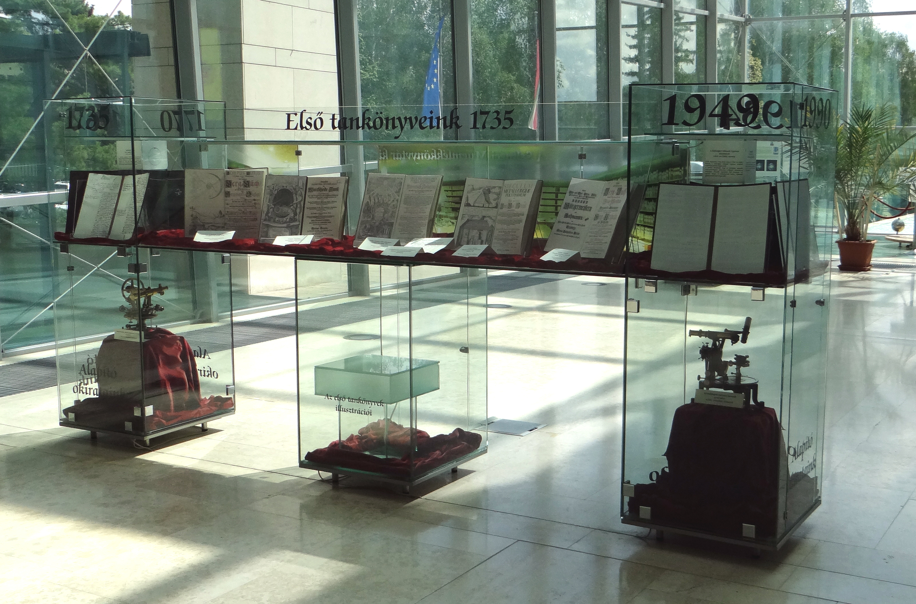 University of Miskolc, Miskolc, Hungary. University History Exhibition, Main Building Entrance Hall